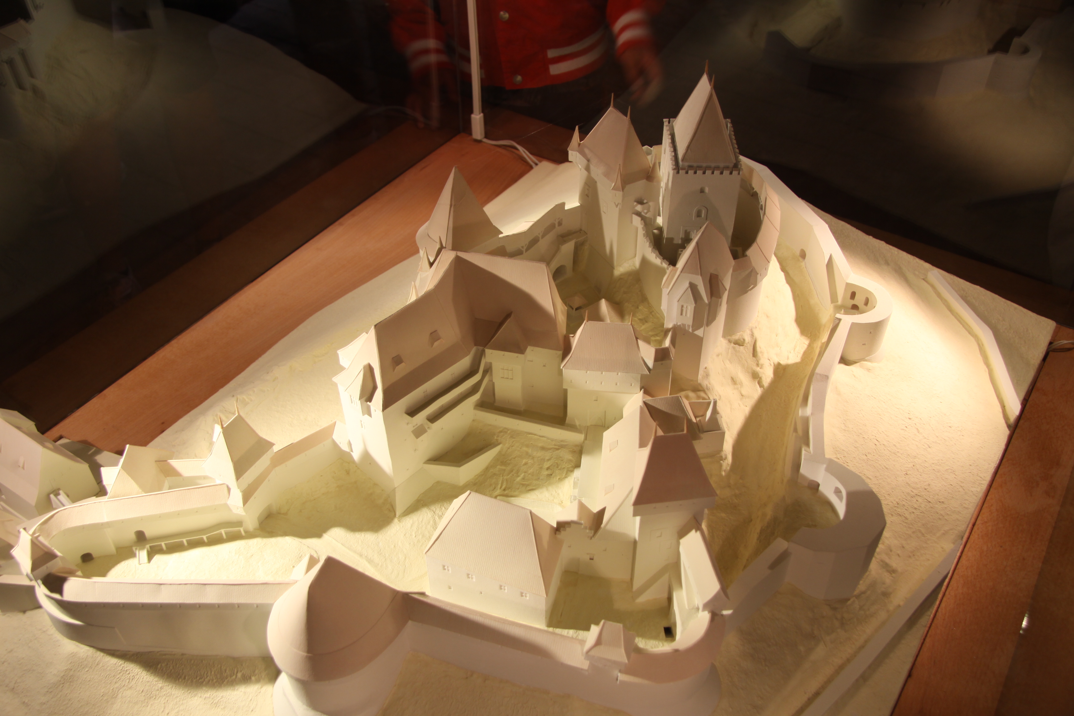 Model of Rabí castle in South Bohemia, Czech Republic. Late stage of construction. - Google Maps - Google Earth